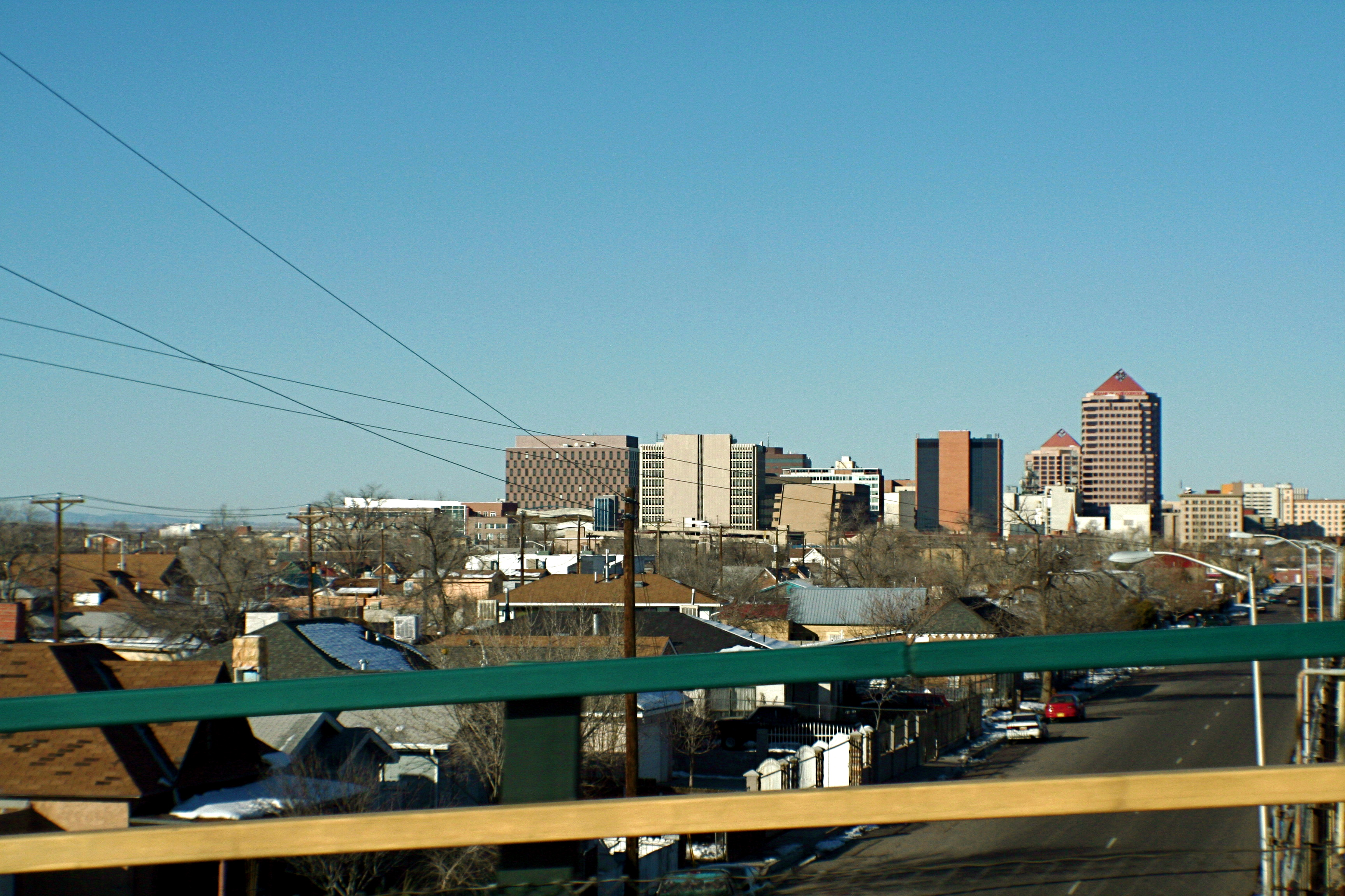 View of downtown Albuquerque, New Mexico from the south